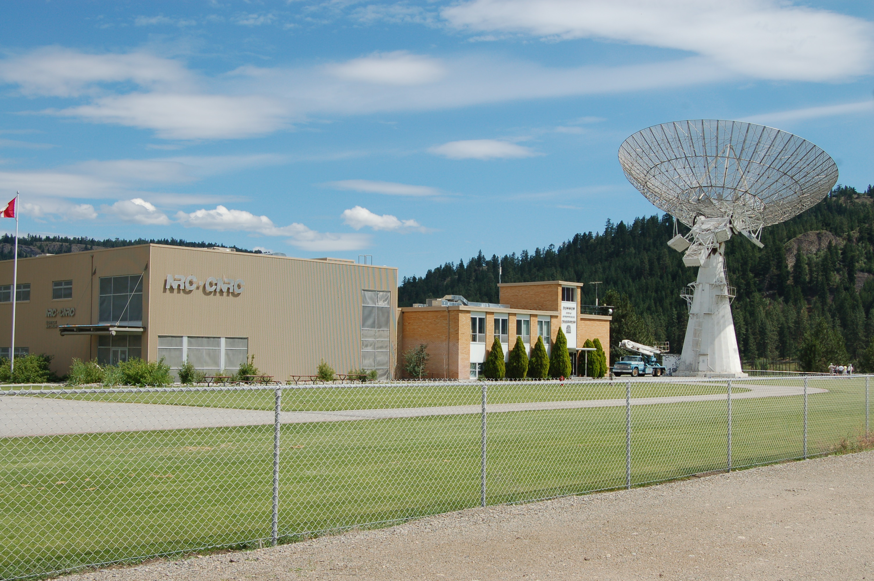 Photo of the Dominion Radio Astrophysical Observatory main building and 26m dish. Taken on 02 July 2007 by Jason Nishiyama using a Nikon D50 camera.